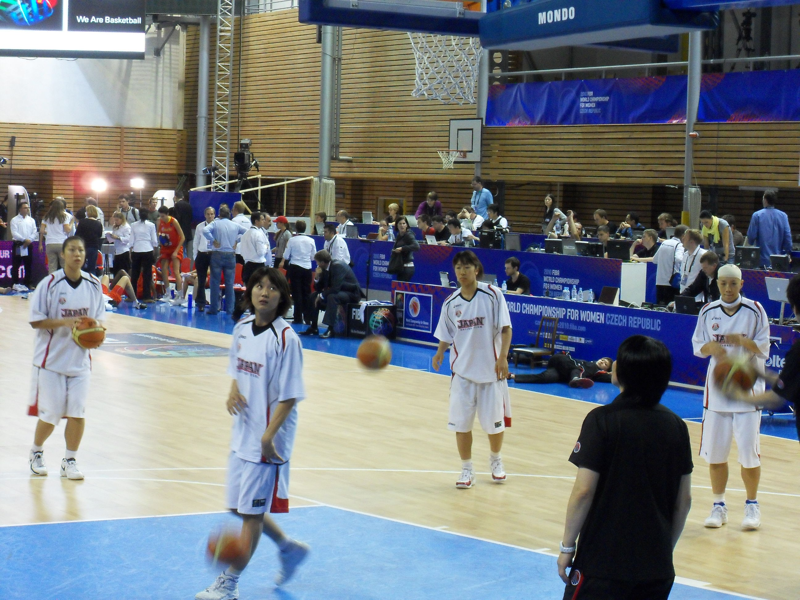 Japan - Czech Republic match at 2010 FIBA World Championship for Women, Brno, Czech Republic